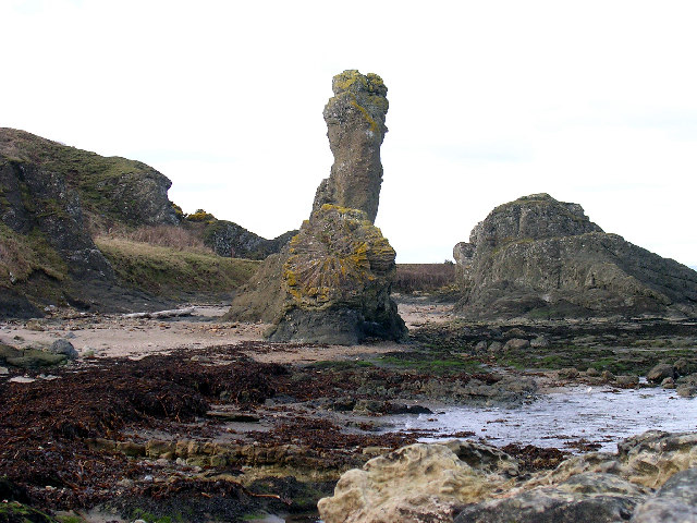 The Rock and Spindle. This oddly shaped 'stack' stands on the shore at the foot of Kinkell Braes south of St Andrews. It is made of basalt which is a volcanic rock. The central spindle appears to have radiating spokes. These are formed in columnar-jointed basalt.